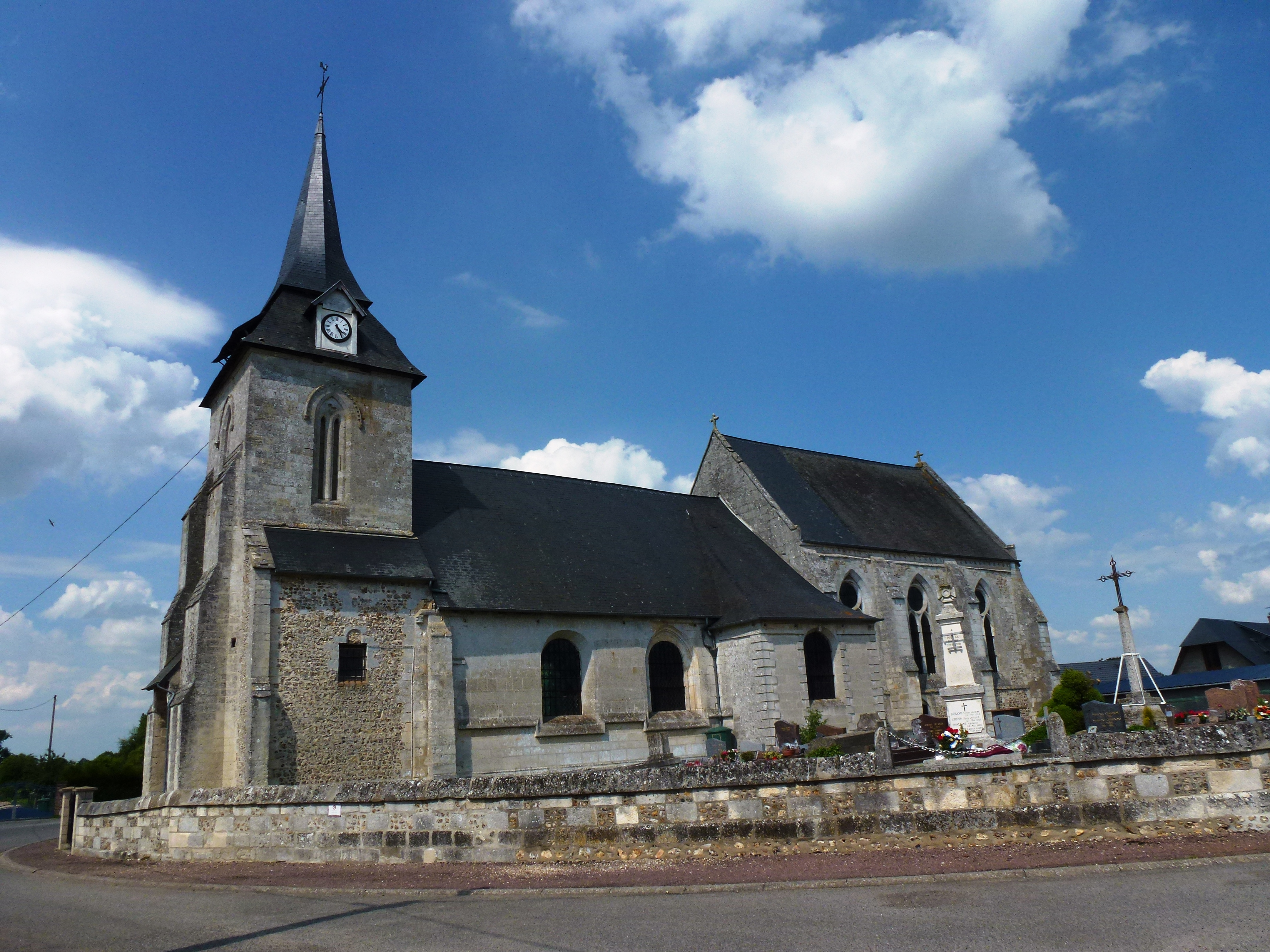 Bray (Eure, Fr) église Notre-Dame